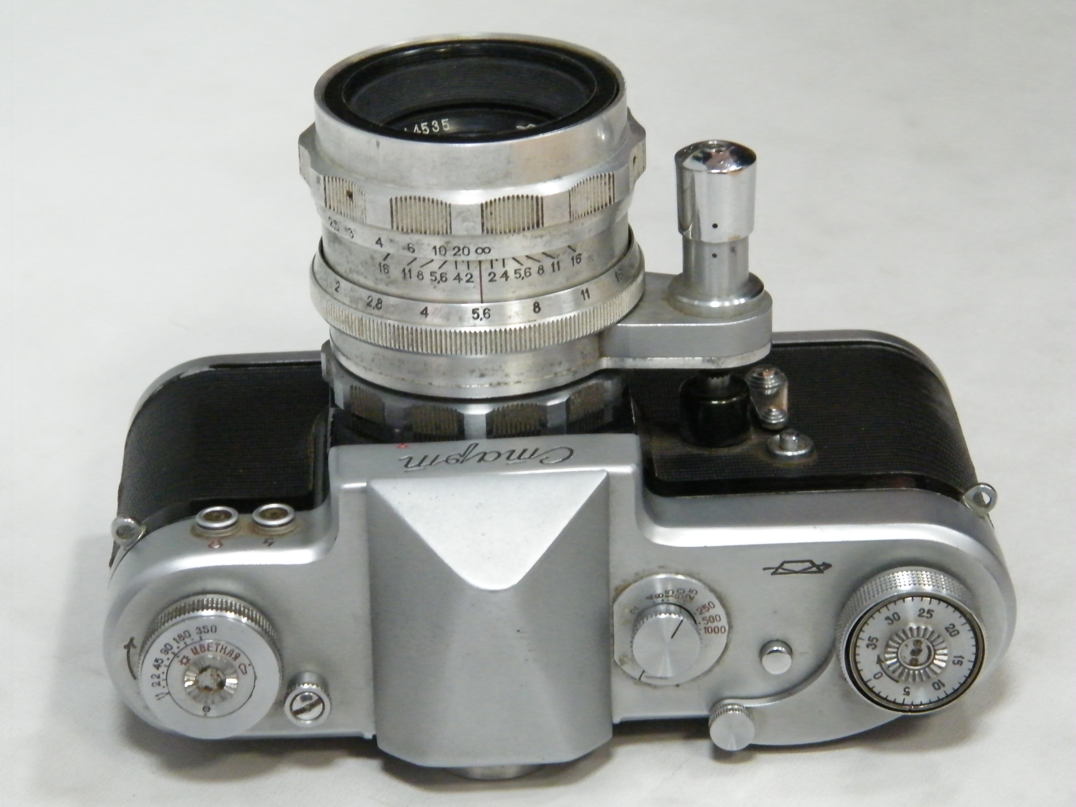 START_camera_from_Evgeniy_Okolov_collection